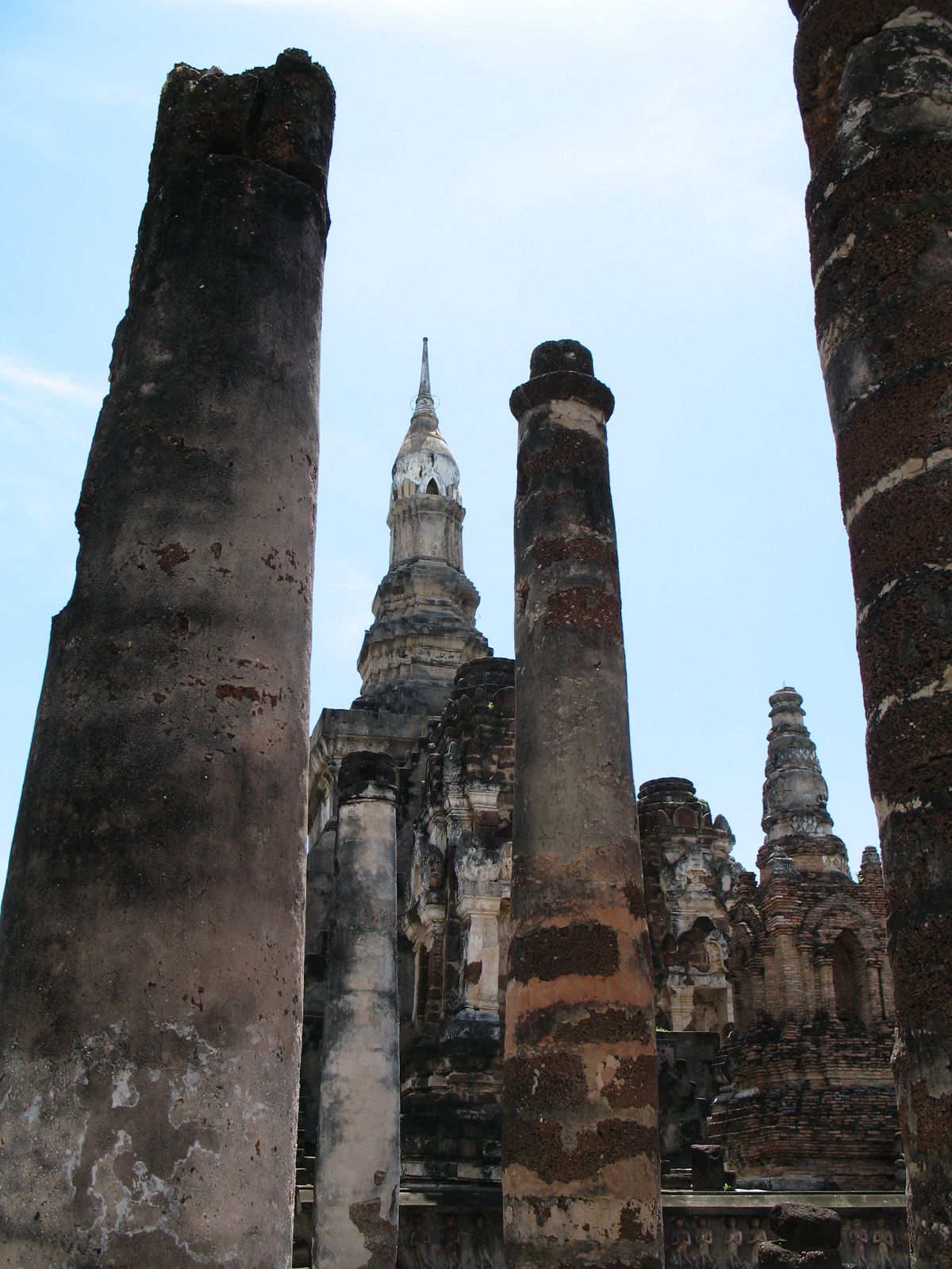 Wat Maha That, Sukhothai Province.